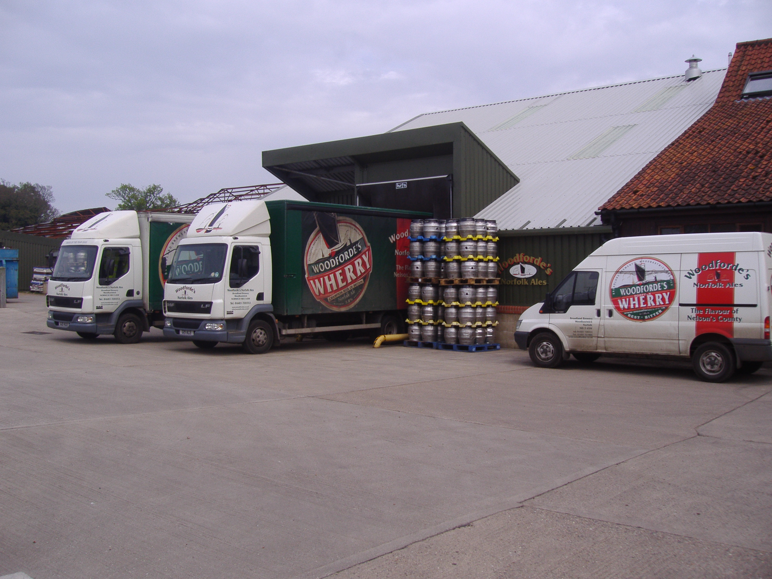 A potograph of the Woodforde's Brewey at Woodbastwick in the county of Norfolk within the UK. DAF LF and Ford Transit.